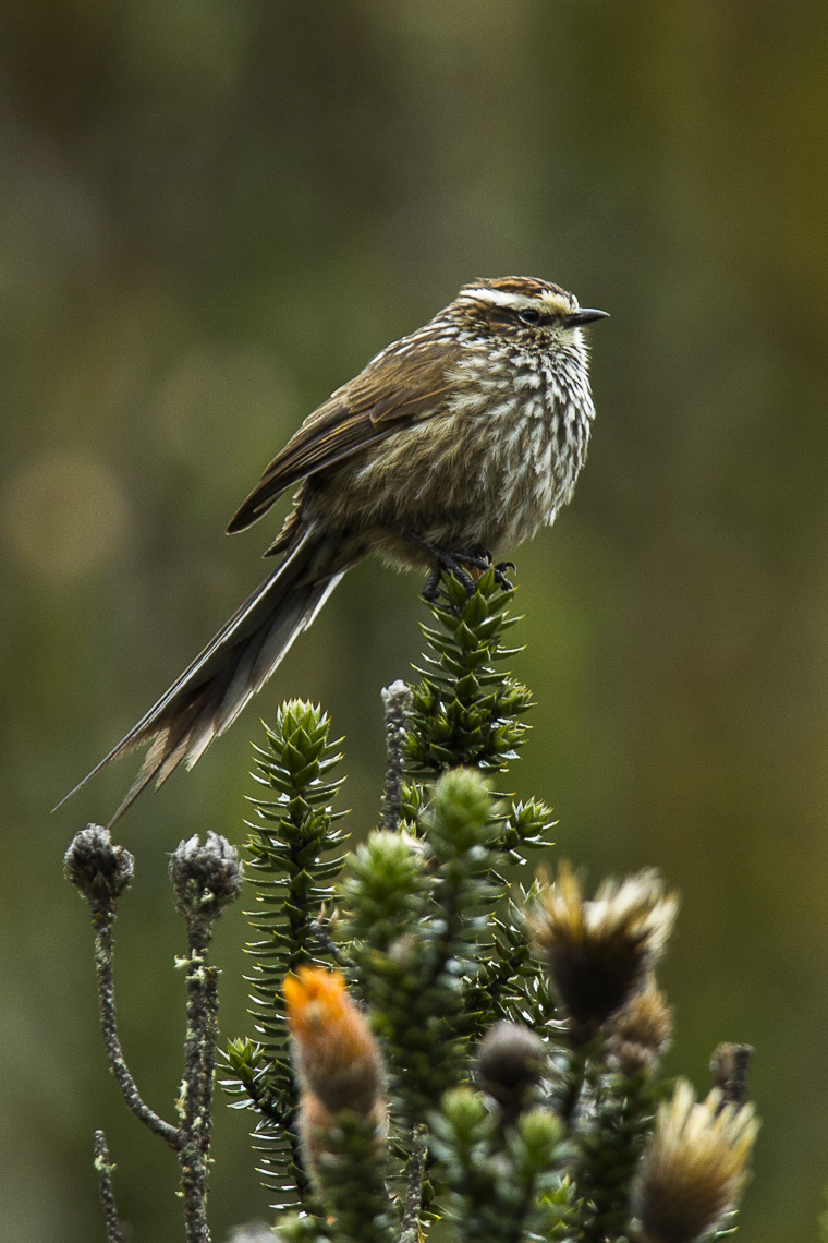 Andean Tit-Spinetail (Leptasthenura andicola) - South Ecuador_S4E3047